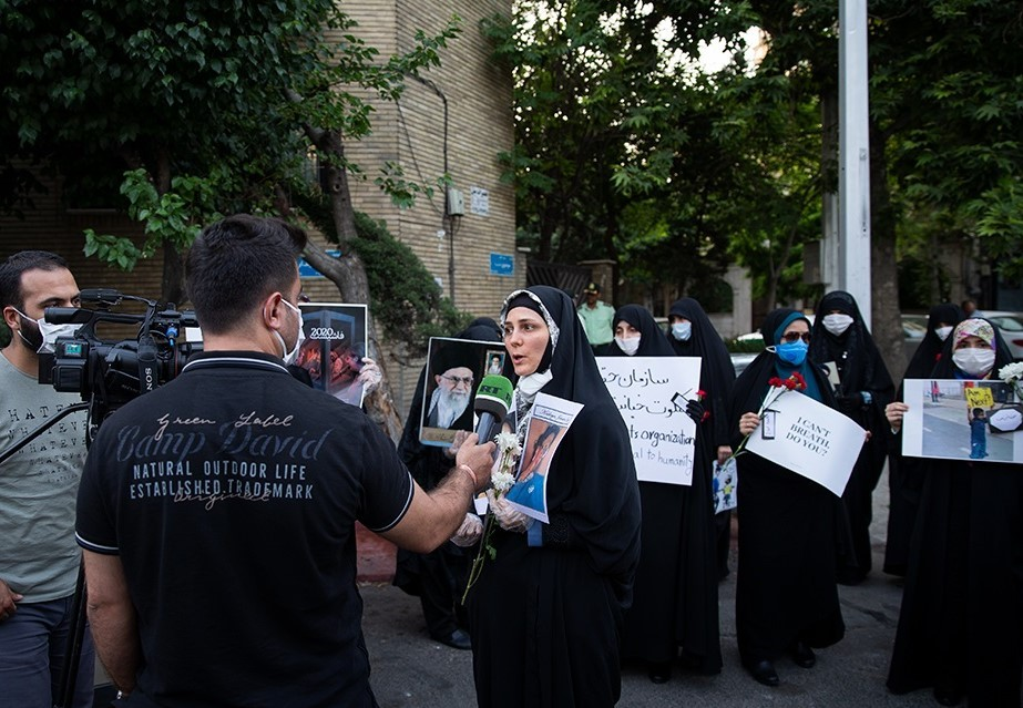 George Floyd protests and memorial in Iran.